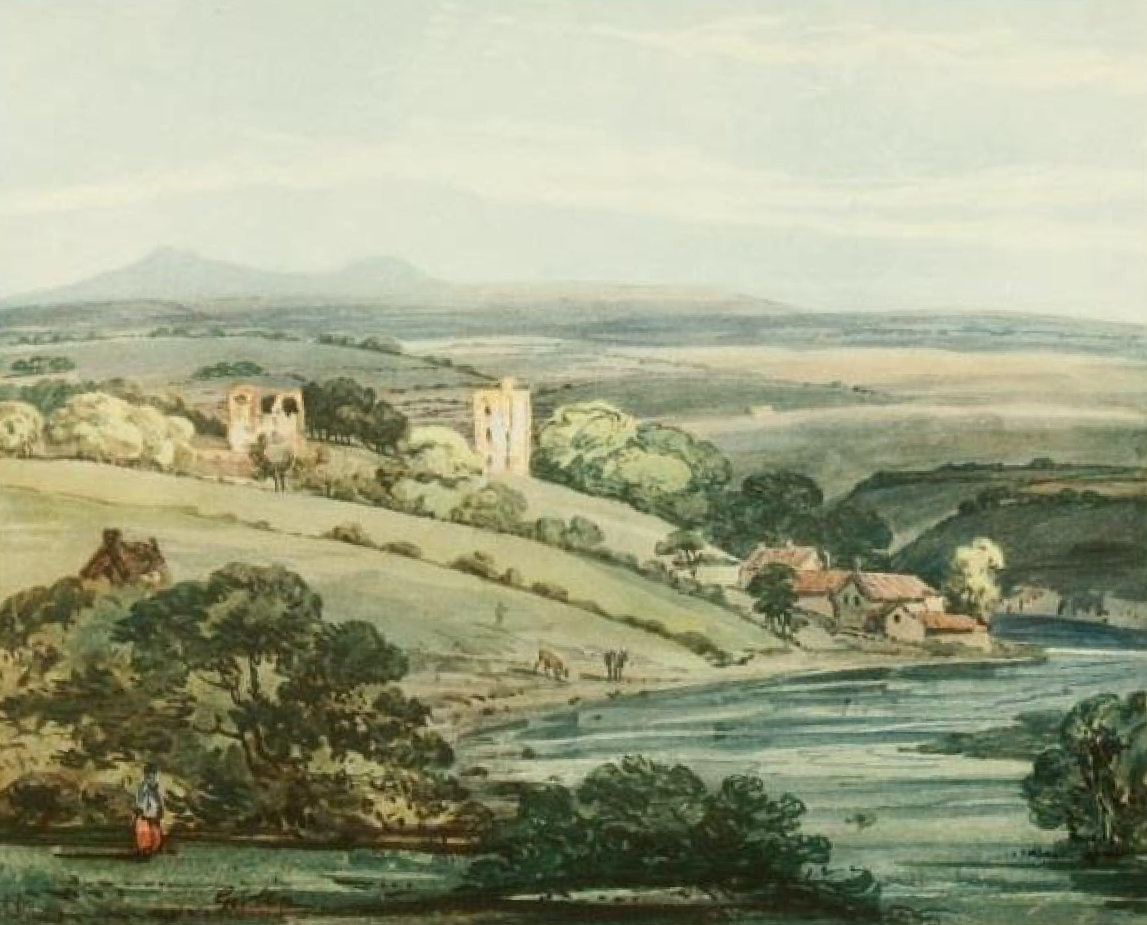 Watercolour of Etal Castle, produced 1797